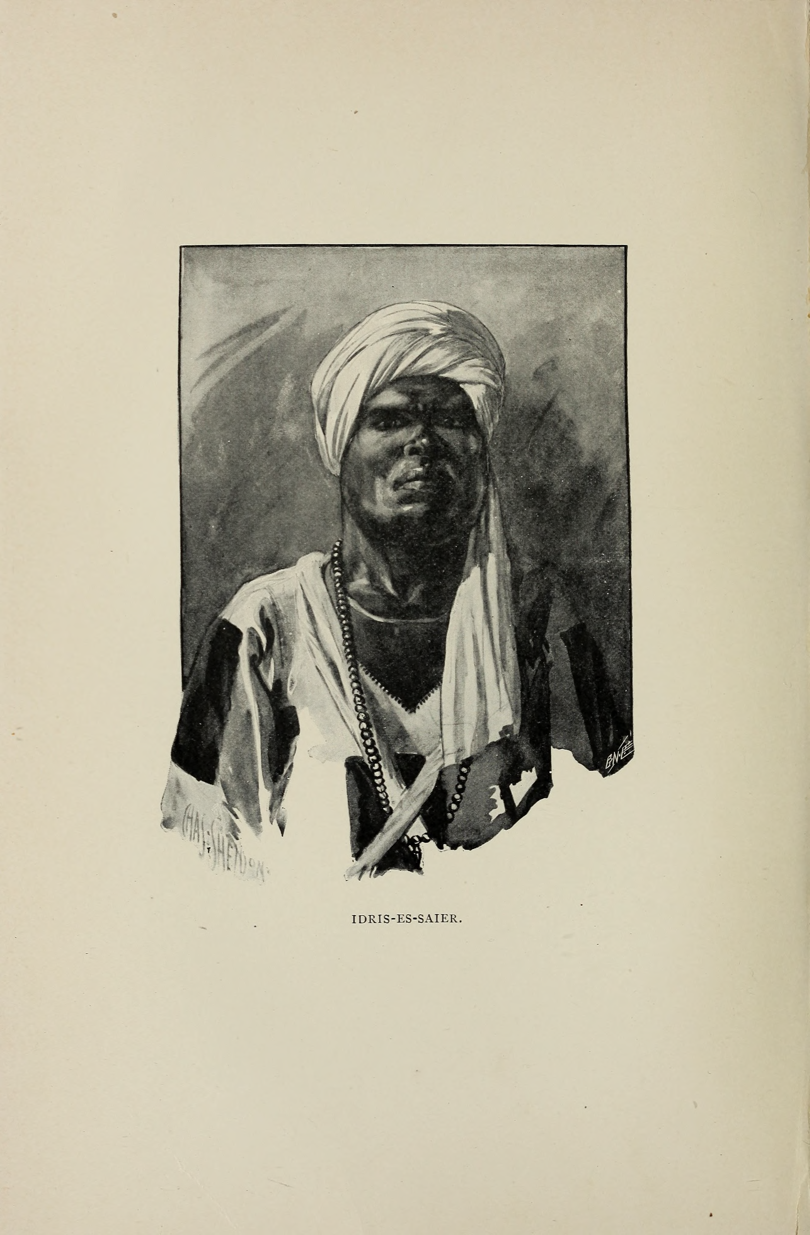 Idris-es-Saier